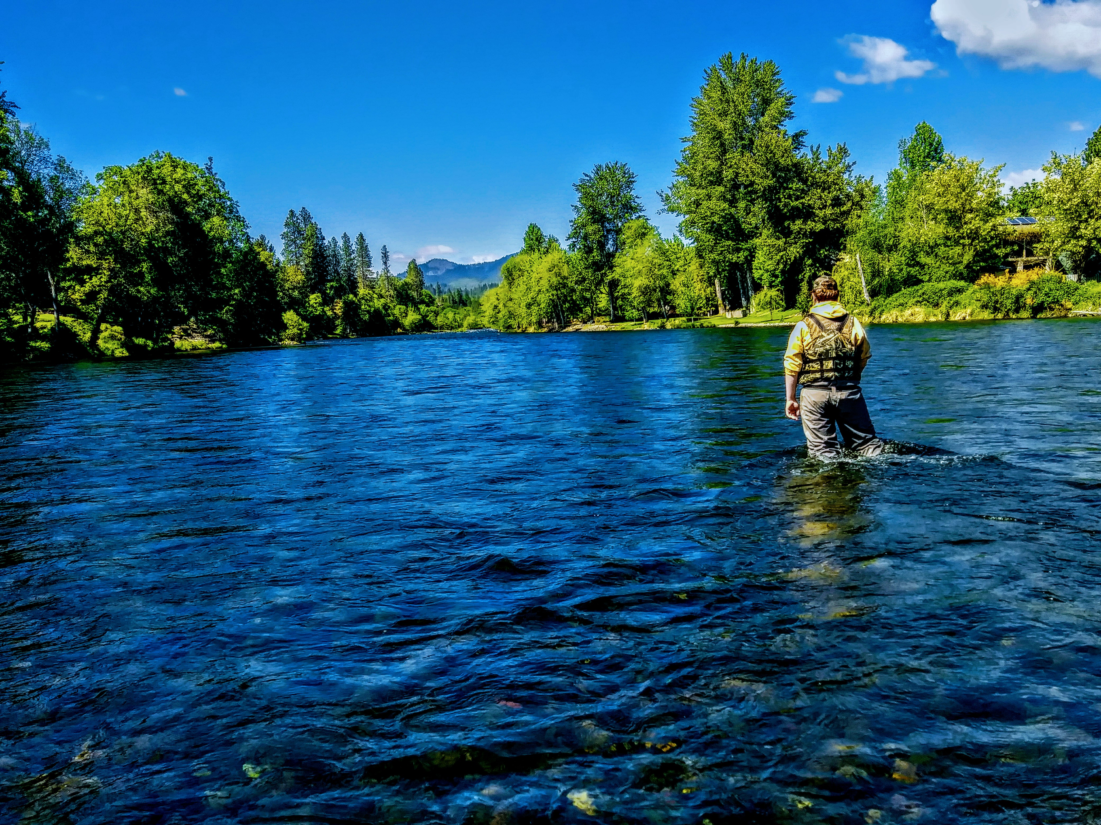 An example of how Down-shifting has given more free time to be on the Rogue River.